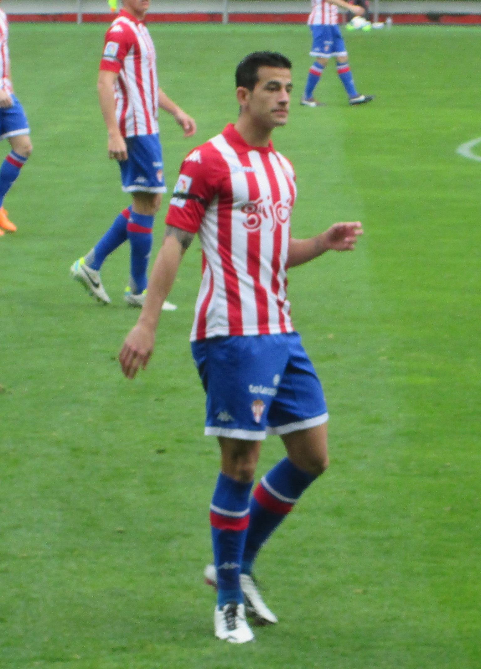 Luis Hernández, in a game for Sporting de Gijón vs SD Ponferradina